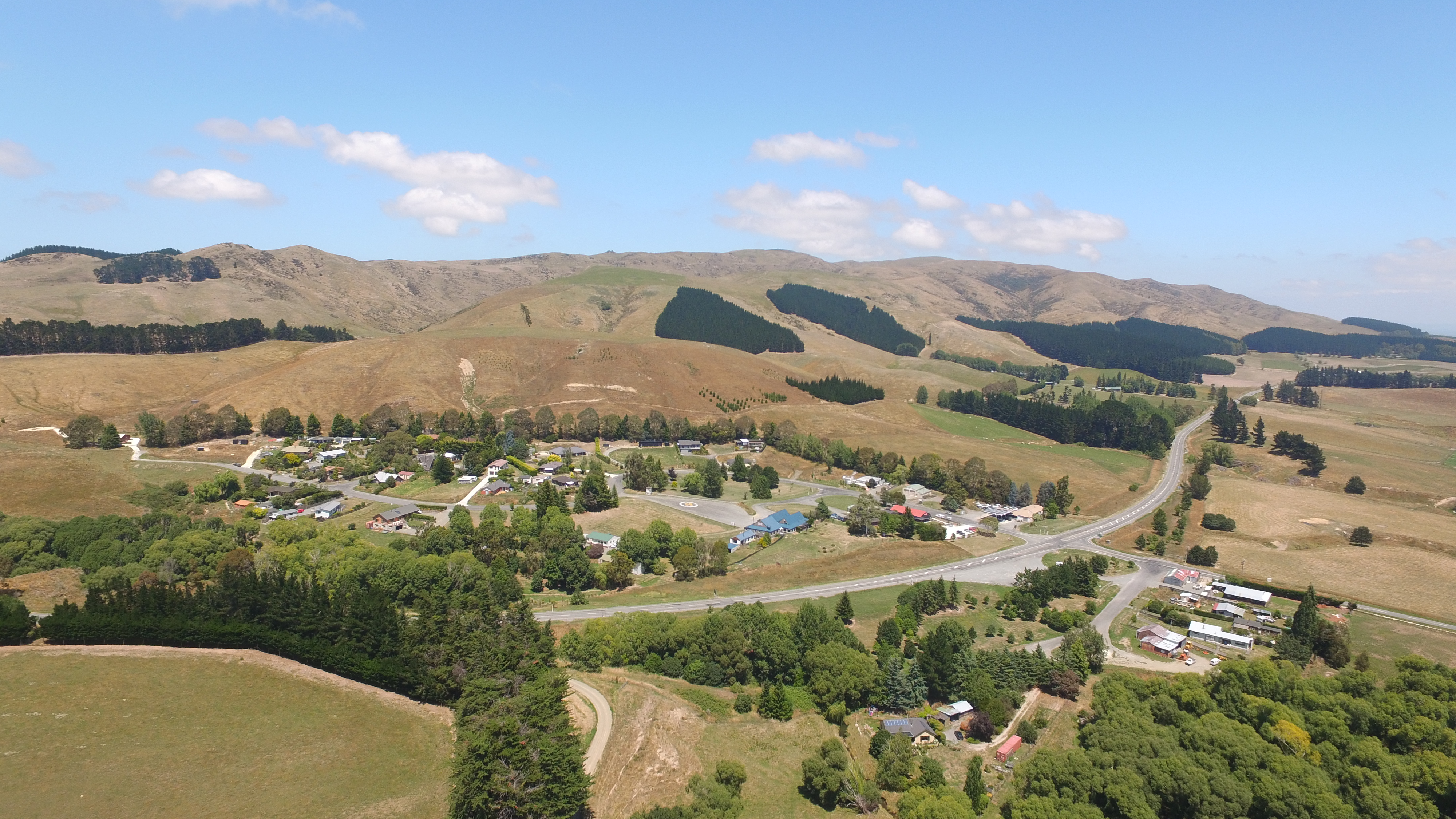 Showing the village and surrounds with NZ main State Hwy 1 traversing through the middle